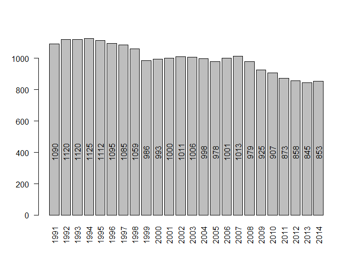 Population growth dynamics in Qeqertarsuaq, Greenland. Numbers from 1991-2014 from Statistics Greenland (